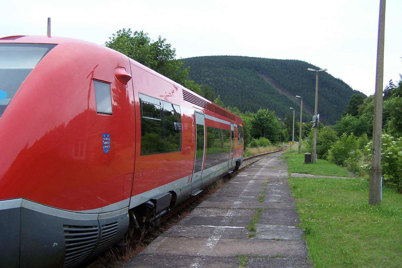 At Luisenthal station.